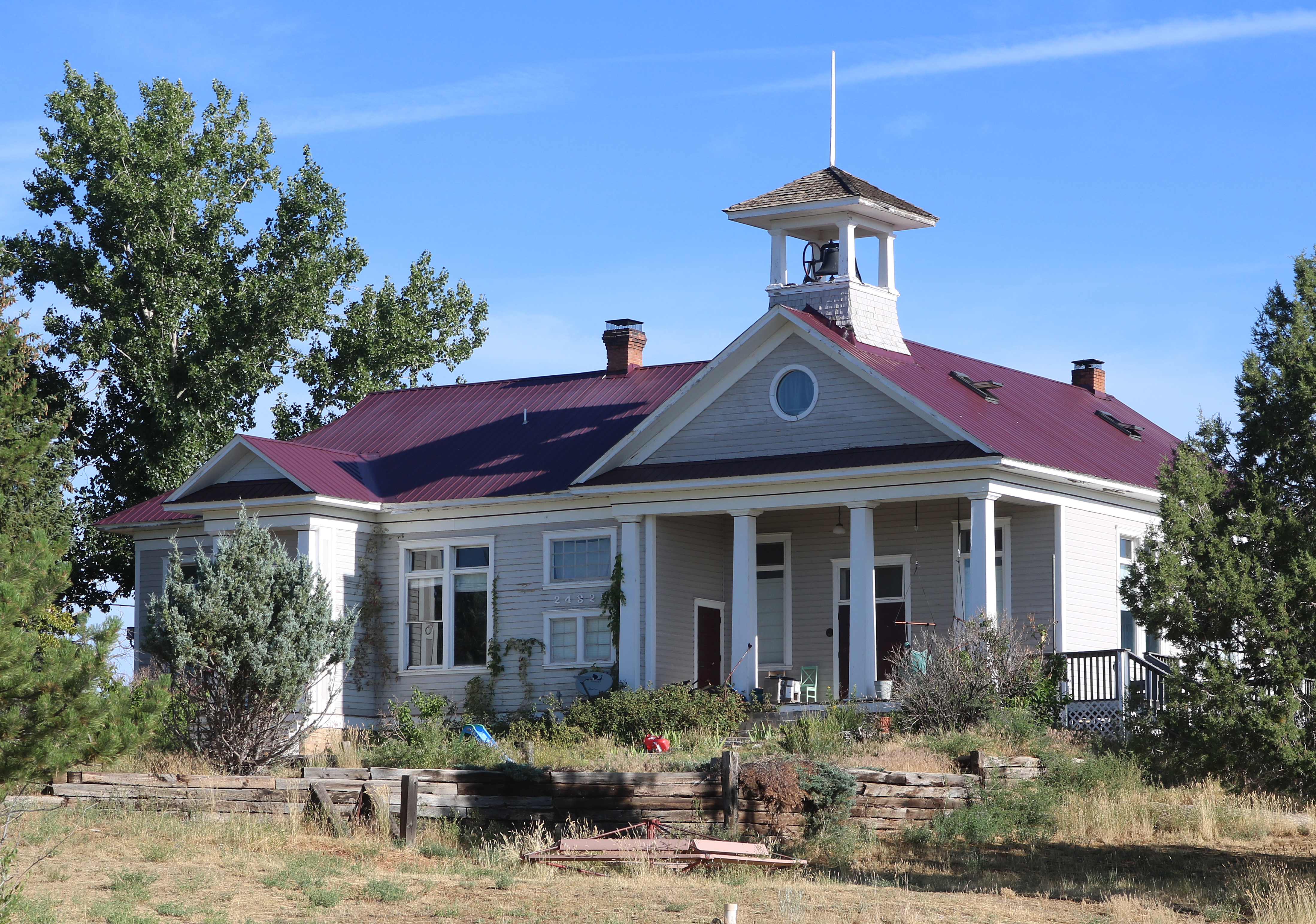 The Lebanon School, located at 24925 County Road T in Lebanon, Colorado. The property, now a dwelling, is listed on the National Register of Historic Places. The original school, the right side of the house, was built in 1907. 5MT12133